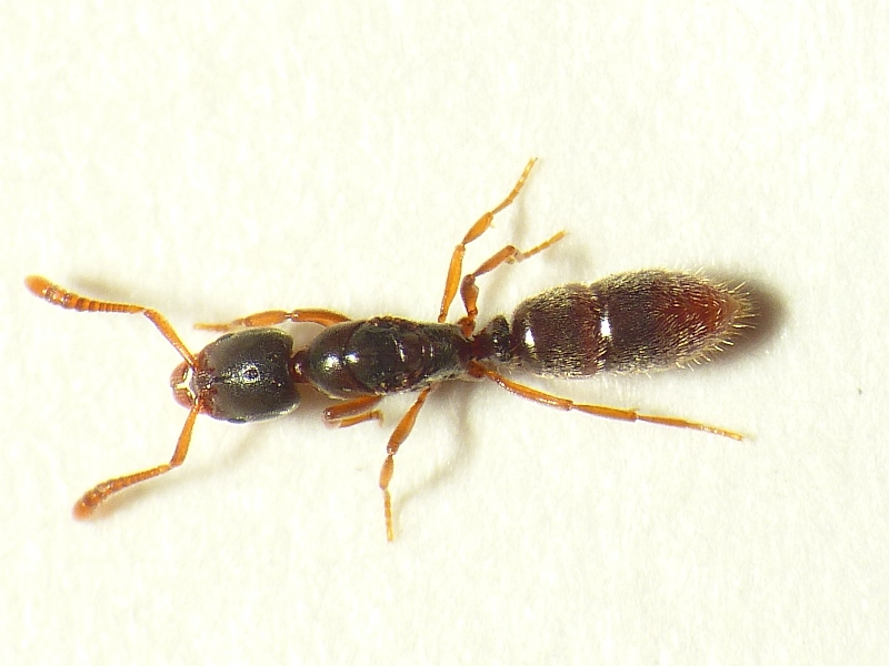 Ponera coarctata queen, location: The Netherlands - Renkum - Telefoonweg